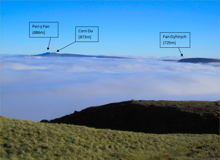 Pen y Fan, Corn Du and Fan Gyhirych taken from Fan Hir.